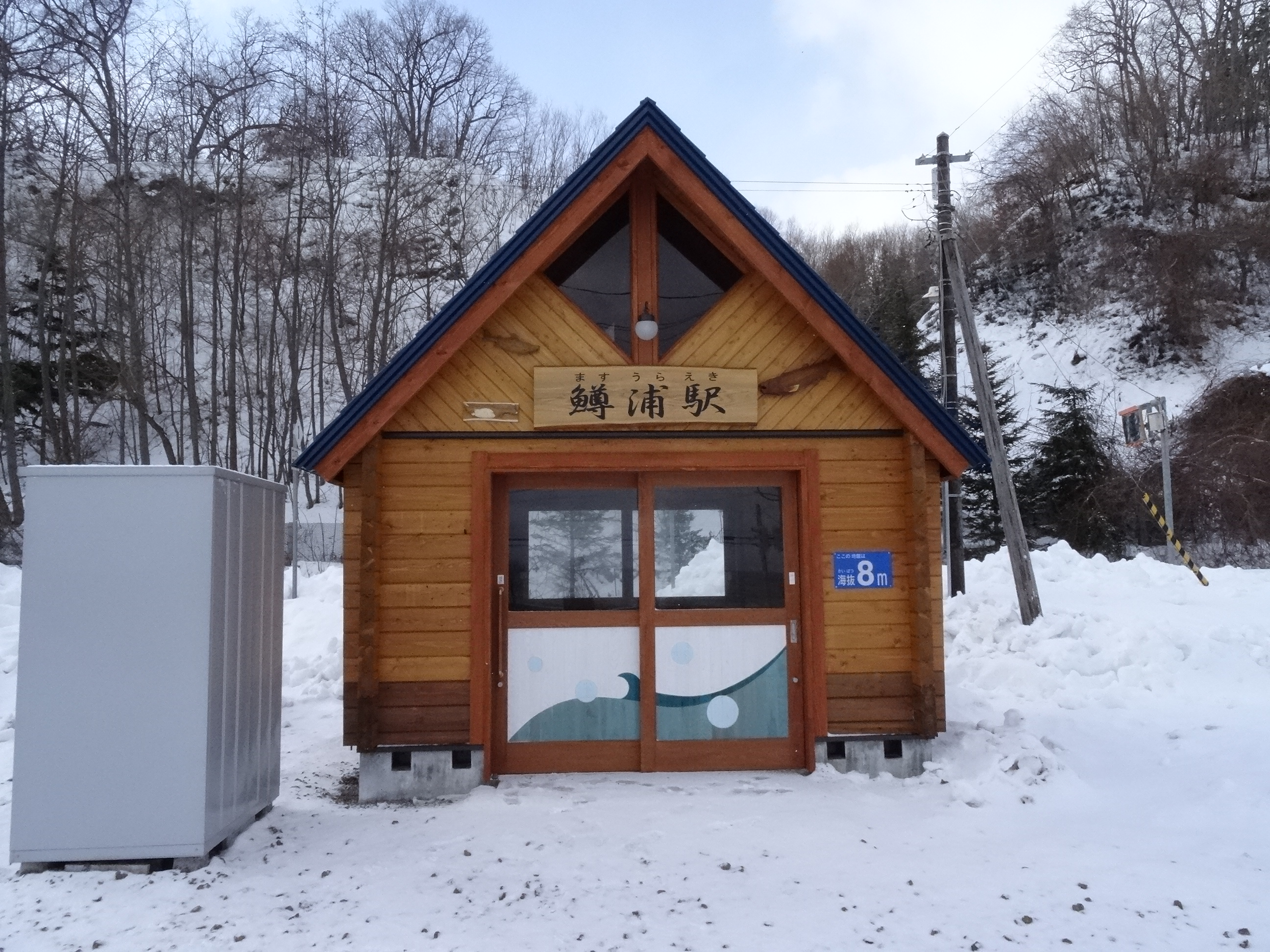 Masuura Station